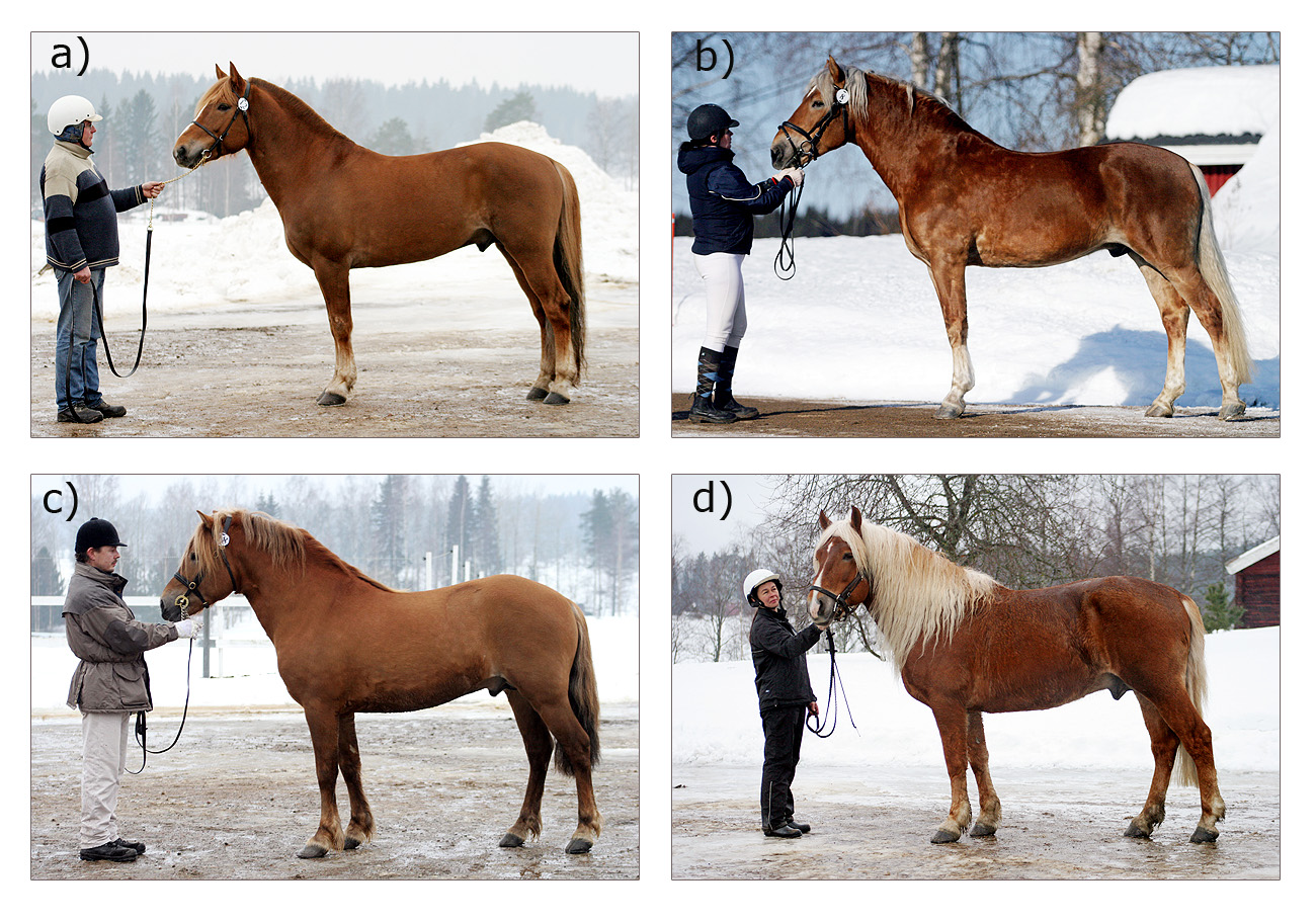 Finnhorse stallions of four different types: a) Trotter type, b) Riding horse type, c) Pony-sized type, d) Draught horse type